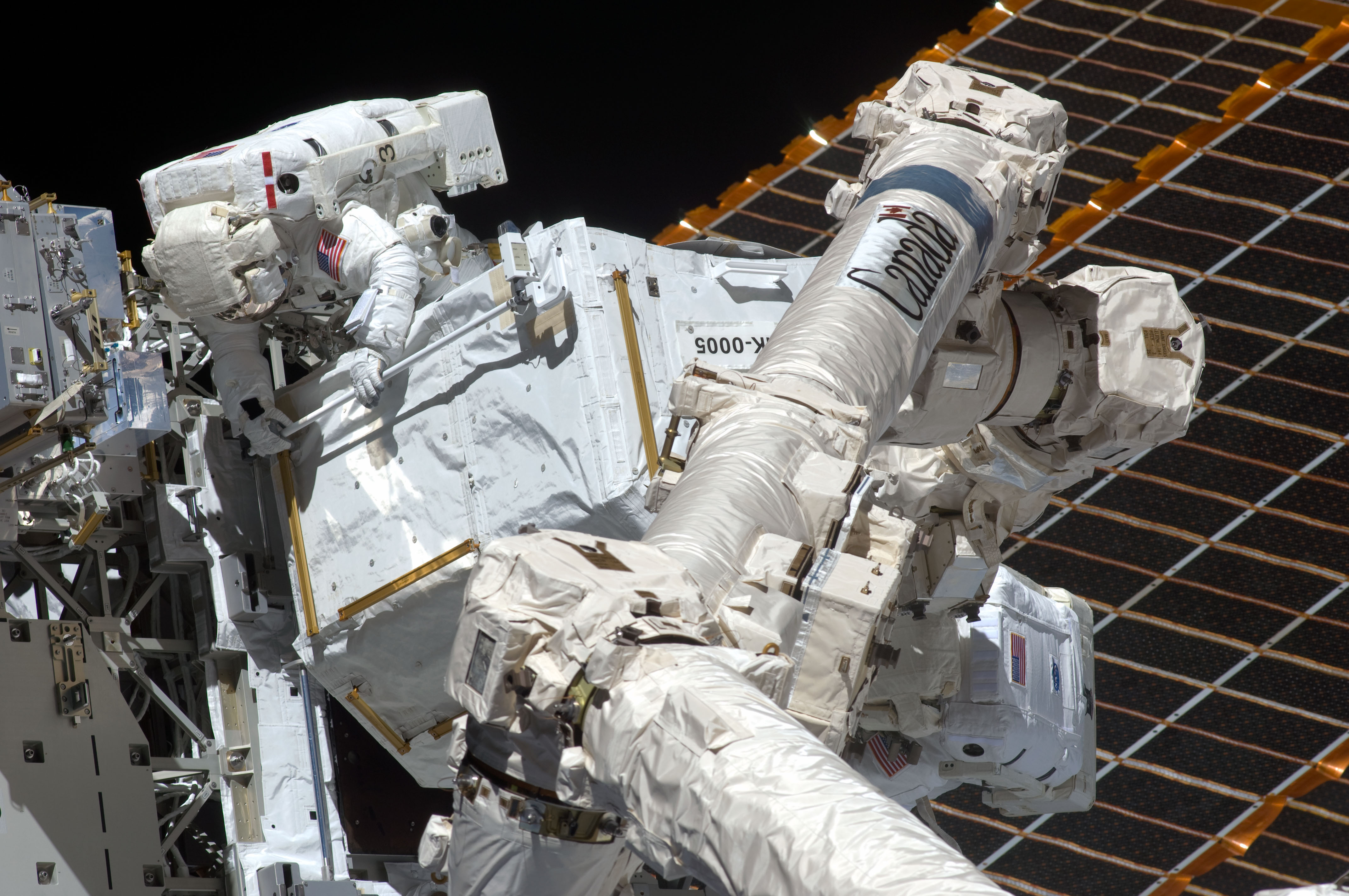 Astronauts Randy Bresnik (top left) and Robert L. Satcher Jr. (right), both STS-129 mission specialists, participate in the mission's third and final session of extravehicular activity (EVA) as construction and maintenance continue on the International Space Station. During the five-hour, 42-minute spacewalk, Bresnik and Satcher removed a pair of micrometeoroid and orbital debris shields from the Quest airlock and strapped them to the External Stowage Platform #2, then moved an articulating foot restraint to the airlock, and released a bolt on a starboard truss ammonia tank assembly (ATA) in preparation for an STS-131 spacewalk that will replace the ATA.